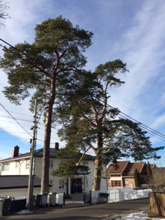 Natural monument at 39 Jomfrubraatveien in Oslo